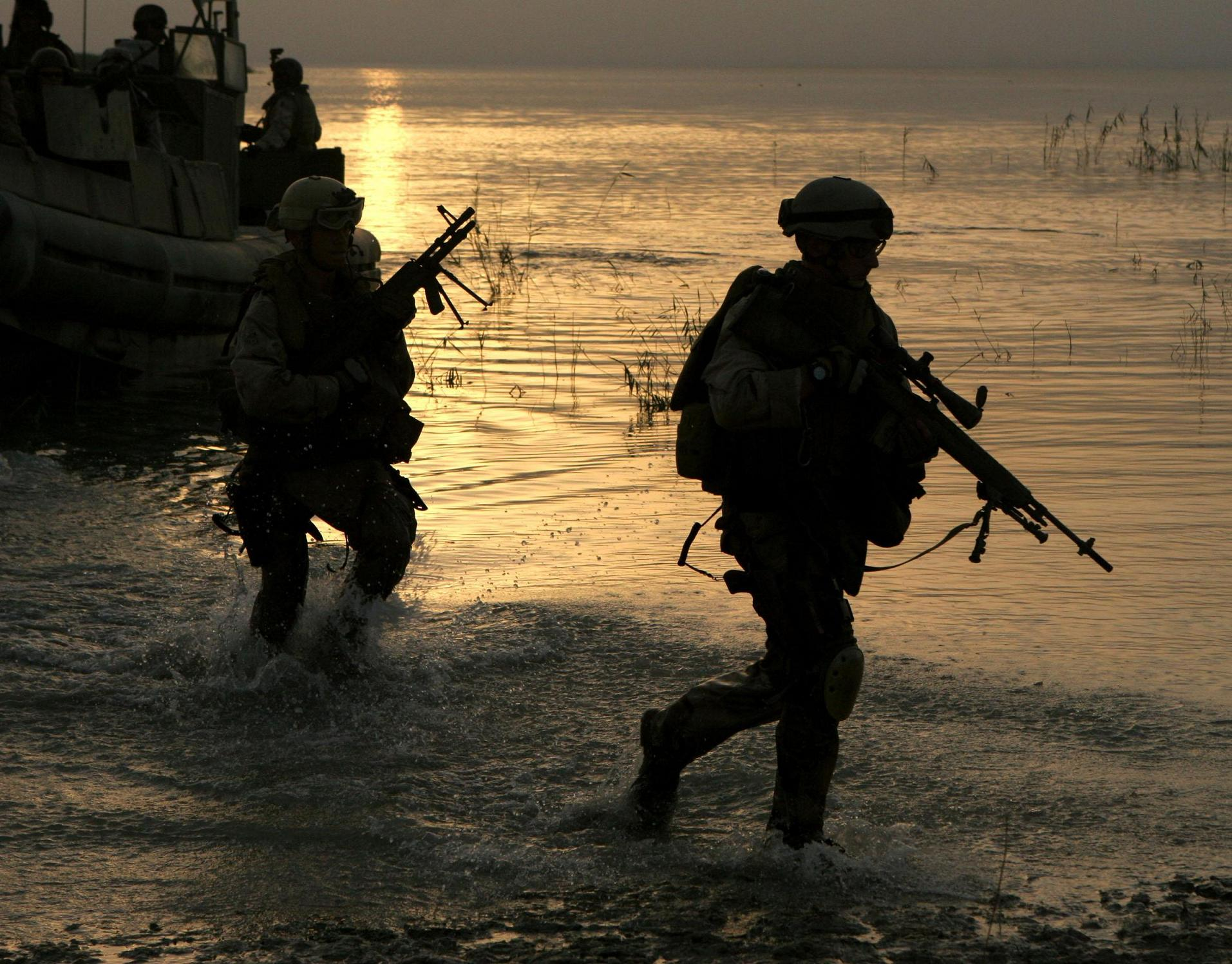 Sailors, Riverine Squadron One, 13th Marine Expeditionary Unit, enter the reeds on the edge of Lake Thar Thar in the Al Anbar Province of Iraq to conduct cordon and search operations July 15, 2007. The 13th MEU is deployed with Multi National Forces-West in support of Operation Iraqi Freedom in the Al Anbar province of Iraq to develop Iraqi Security Forces, facilitate the development of official rule through democratic reforms, and continue the development of a market based economy centered on Iraqi reconstruction